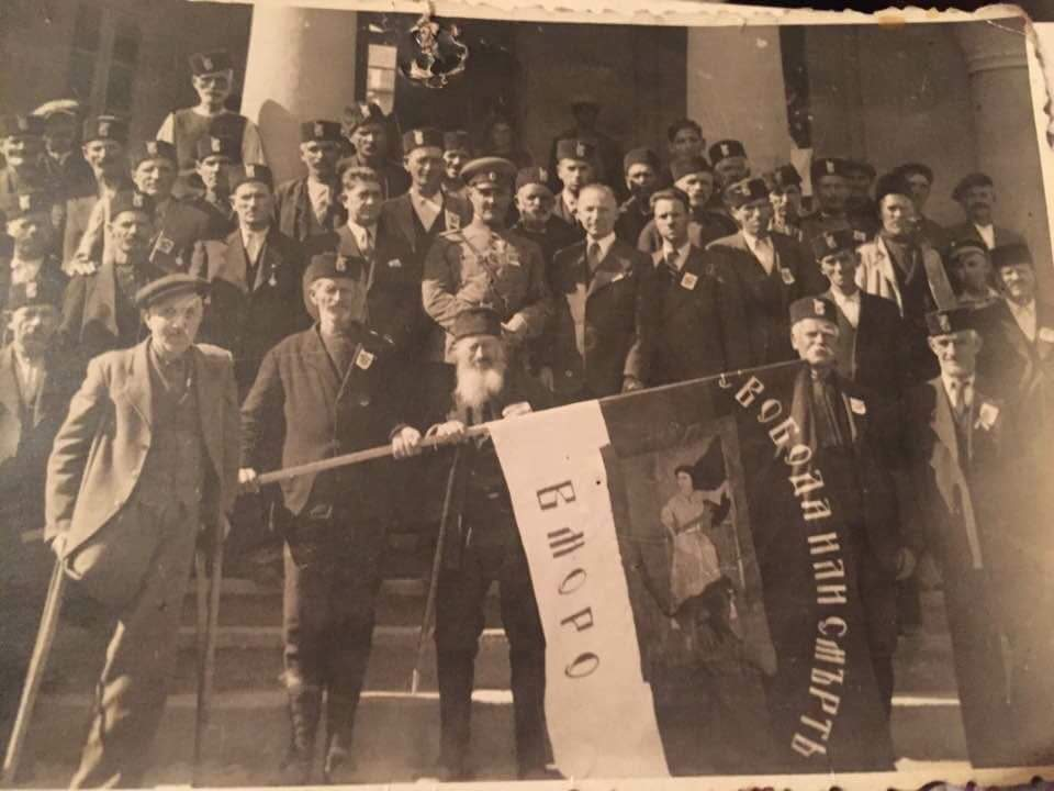 IMARO veterans with banner